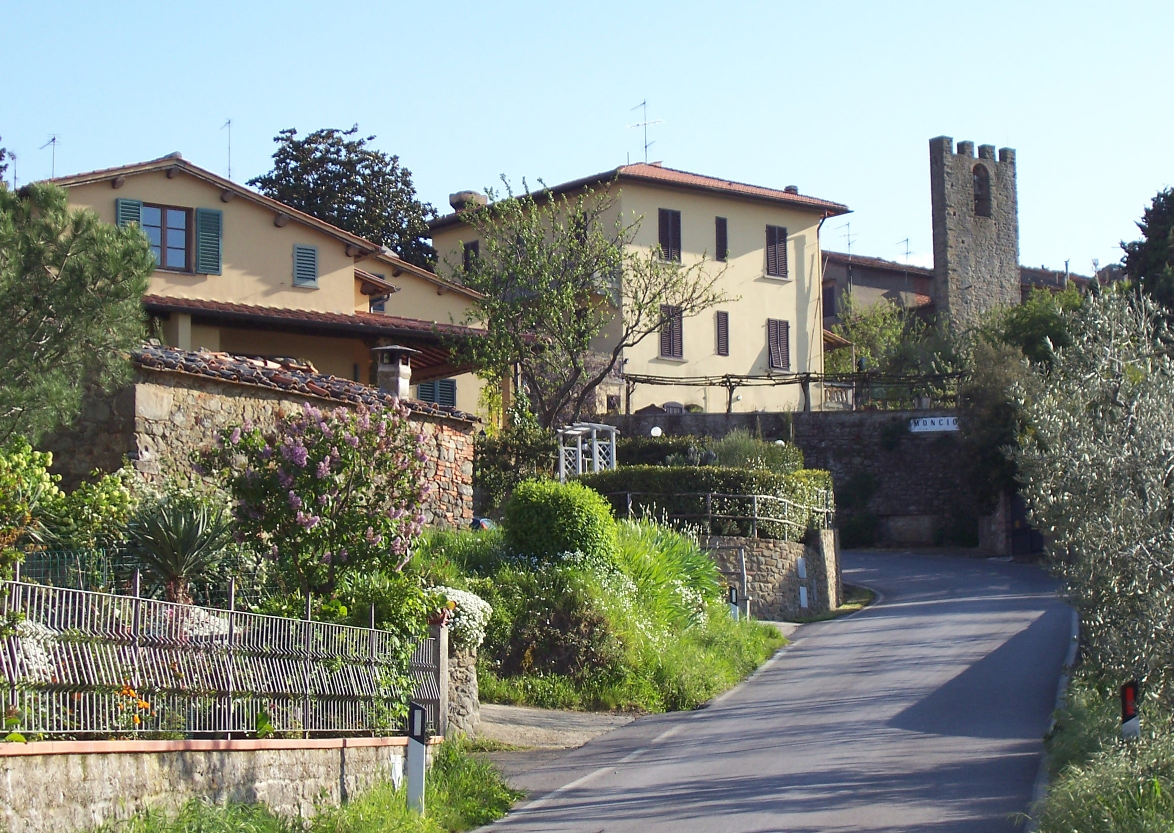 Ruins of the ancient Moncione Castle walls